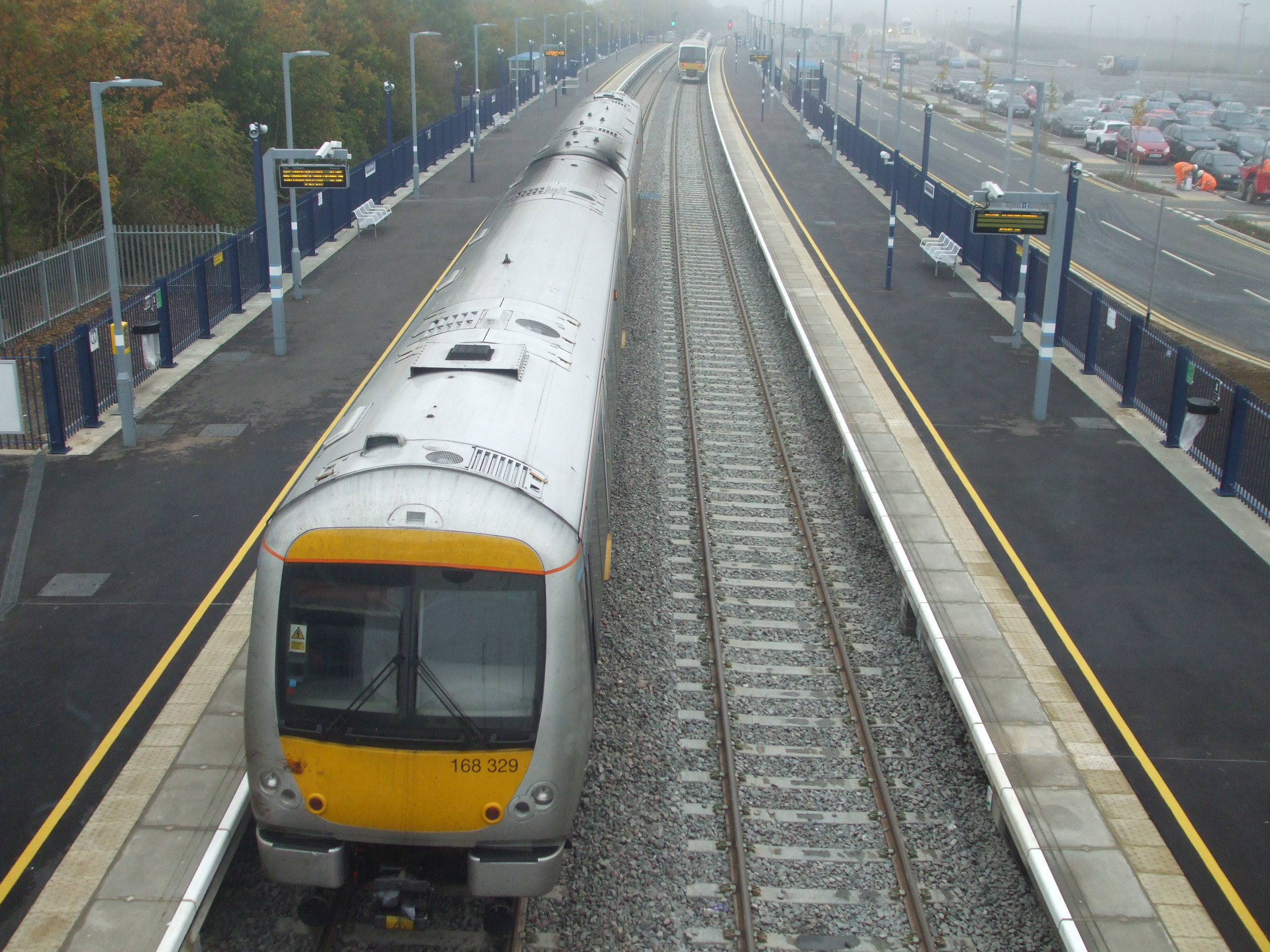 Oxford Parkway station looking north, with Class 168 unit 168329